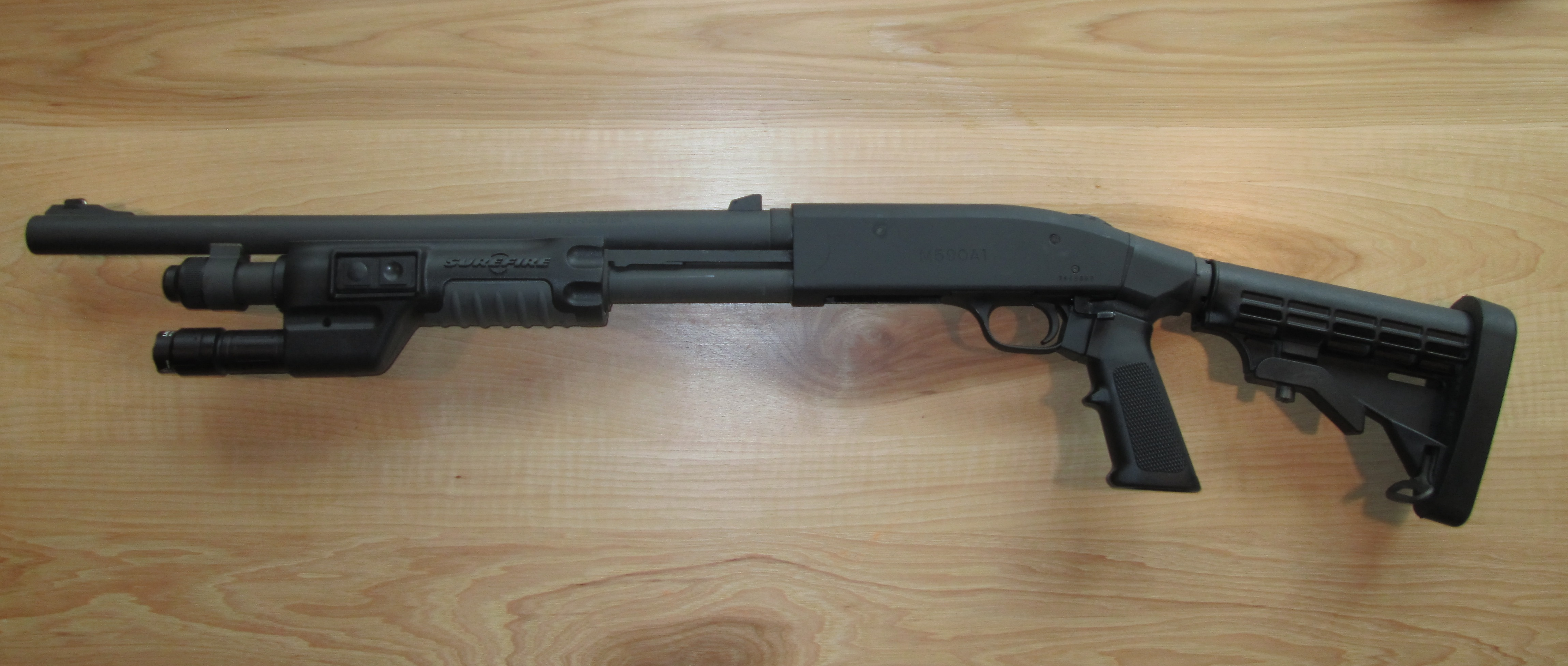 Mossberg M590A1 Tactical shotgun, 12 Ga, 6-shot, 18.5" barrel, SureFire tactical light